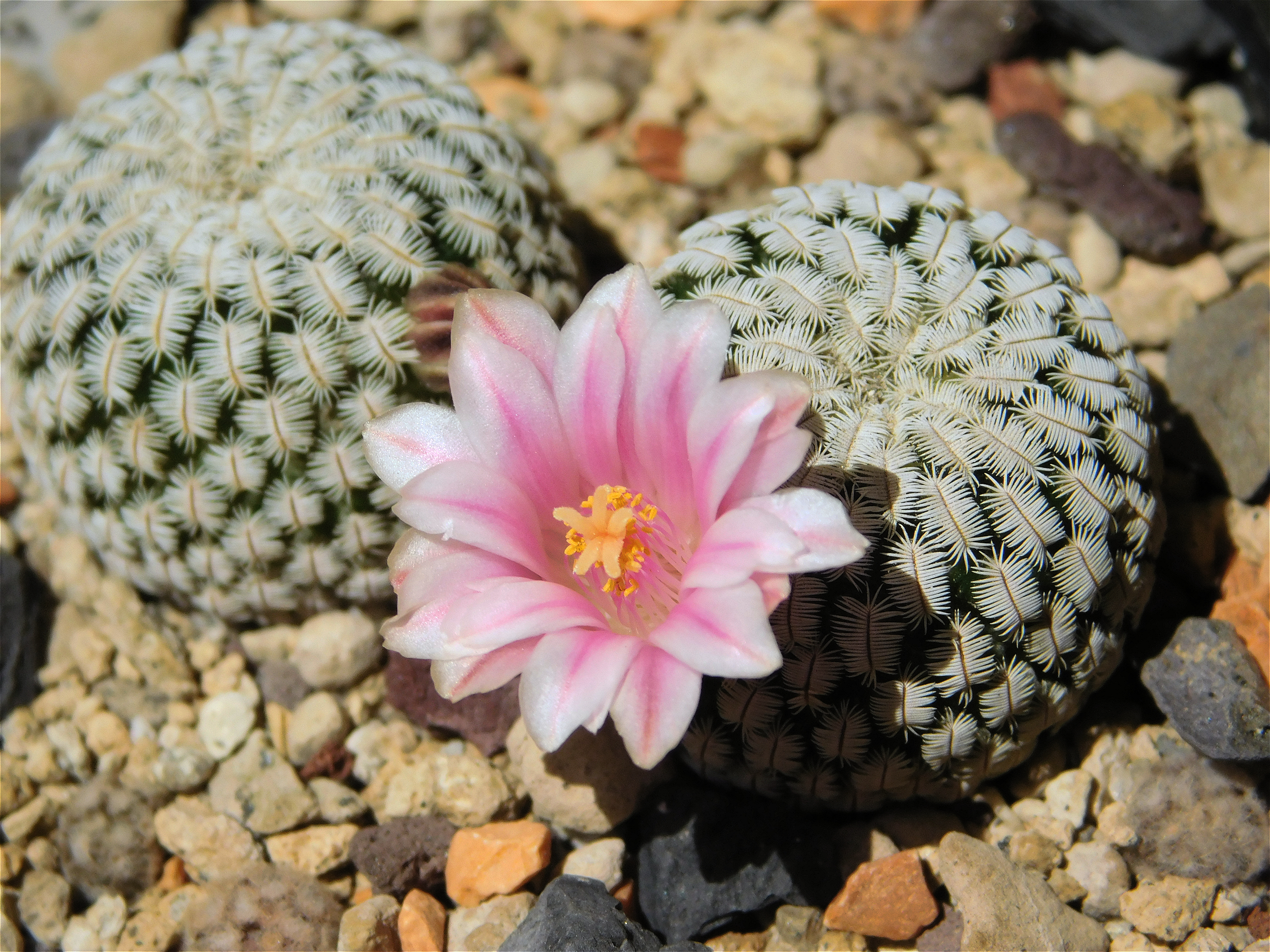 Mammillaria pectinifera